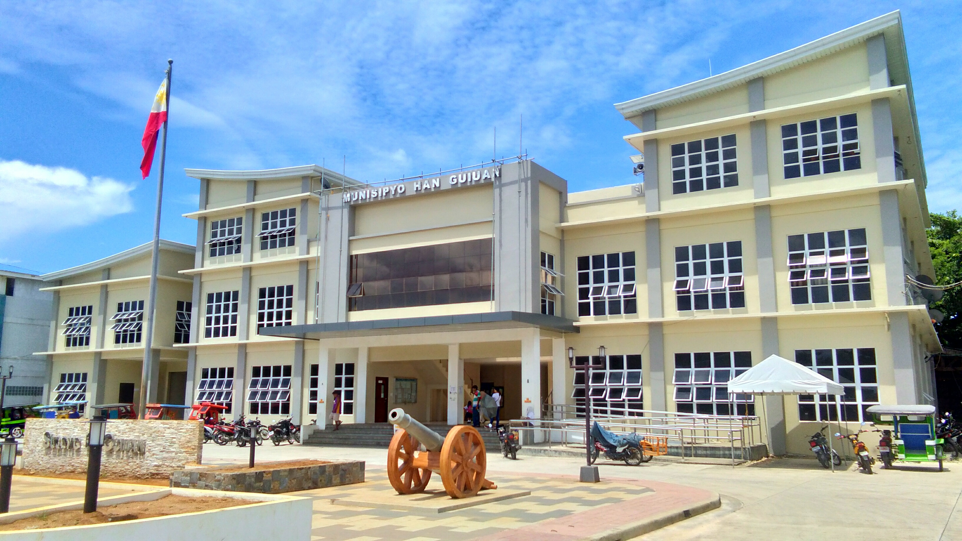 The newly reconstructed Guiuan Municipal Hall in July, 2019